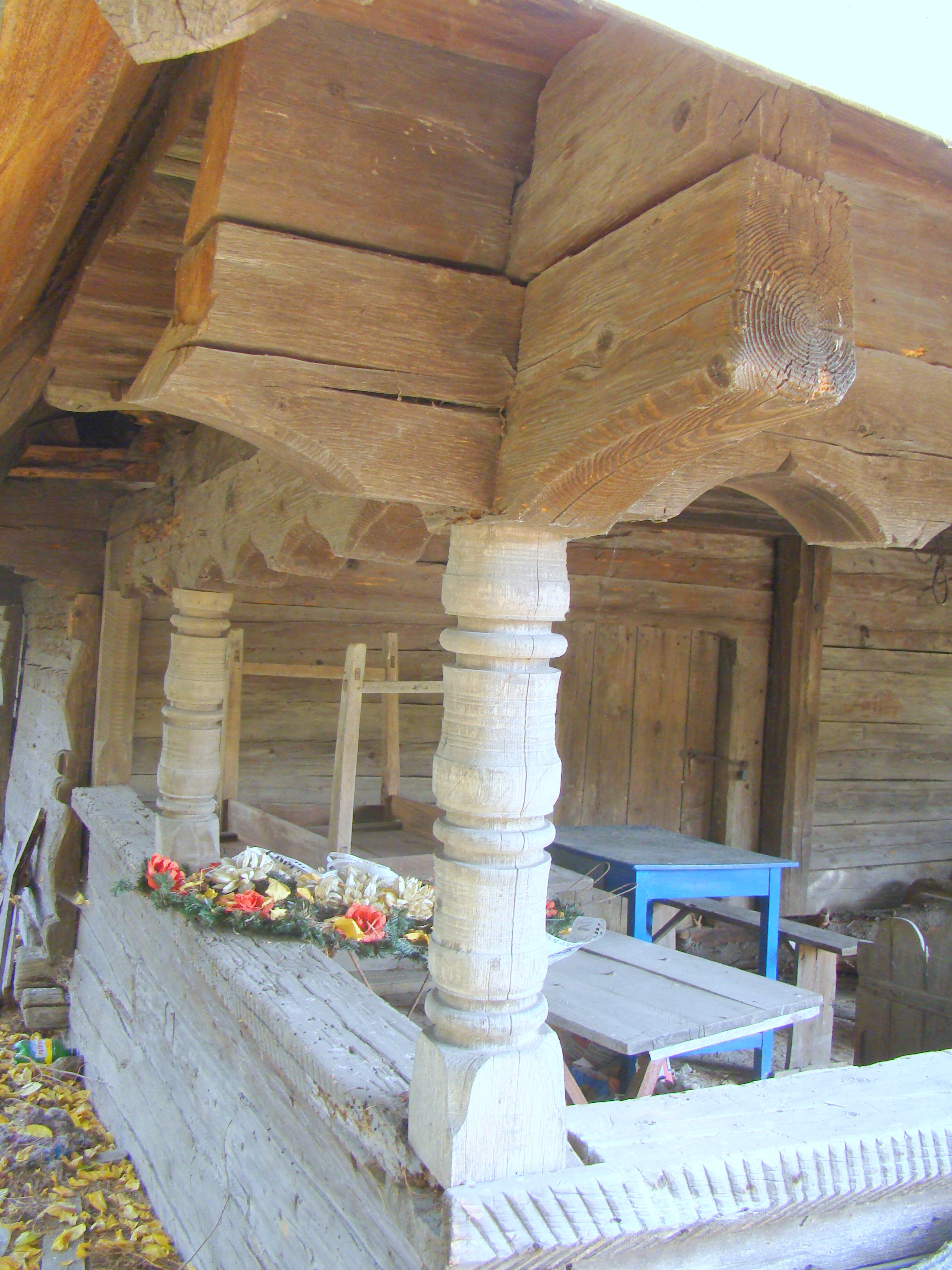 Wooden church in Curpen, Gorj county, Romania